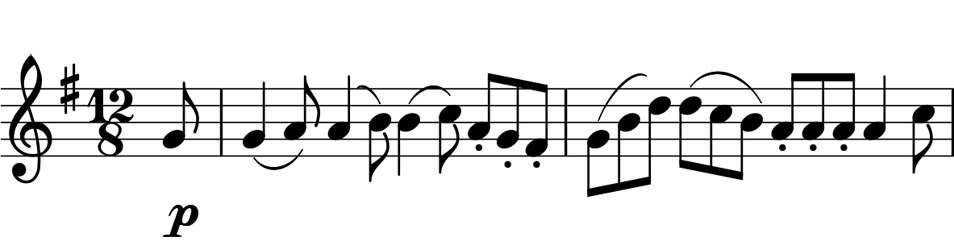 Joseph Haydn, Symphony No. 83, last movement, bar 1-4, 1. violin